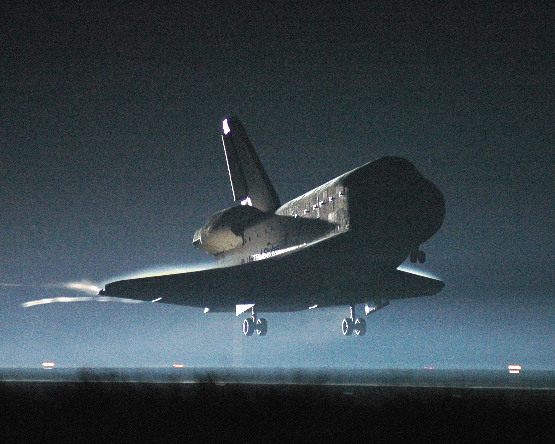 PHOTO NO: KSC-06PD-2184 KENNEDY SPACE CENTER, FLA. – Concluding mission STS-115, Atlantis and her crew return to Kennedy Space Center and approach a landing before sunrise on Runway 33. Aboard are Commander Brent Jett, Pilot Christopher Ferguson, and Mission Specialists Joseph Tanner, David Burbank, Heidemarie Stefanyshyn-Piper and Steven MacLean, who represents the Canadian Space Agency. During the mission, Tanner, McLean, Burbank and Piper completed three spacewalks to attach the P3/P4 integrated truss structure to the International Space Station. Main gear touchdown was at 6:21:30 a.m. EDT. Nose gear touchdown was at 6:21:36 a.m. and wheel stop was at 6:22:16 a.m. At touchdown -- nominally about 2,500 ft. beyond the runway threshold -- the orbiter is traveling at a speed ranging from 213 to 226 mph. Atlantis traveled 4.9 million miles, landing on orbit 187. Mission elapsed time was 11 days, 19 hours, six minutes This is the 15th night landing at KSC and the 23rd night landing overall. Photo credit: NASA/Kim Shiflett